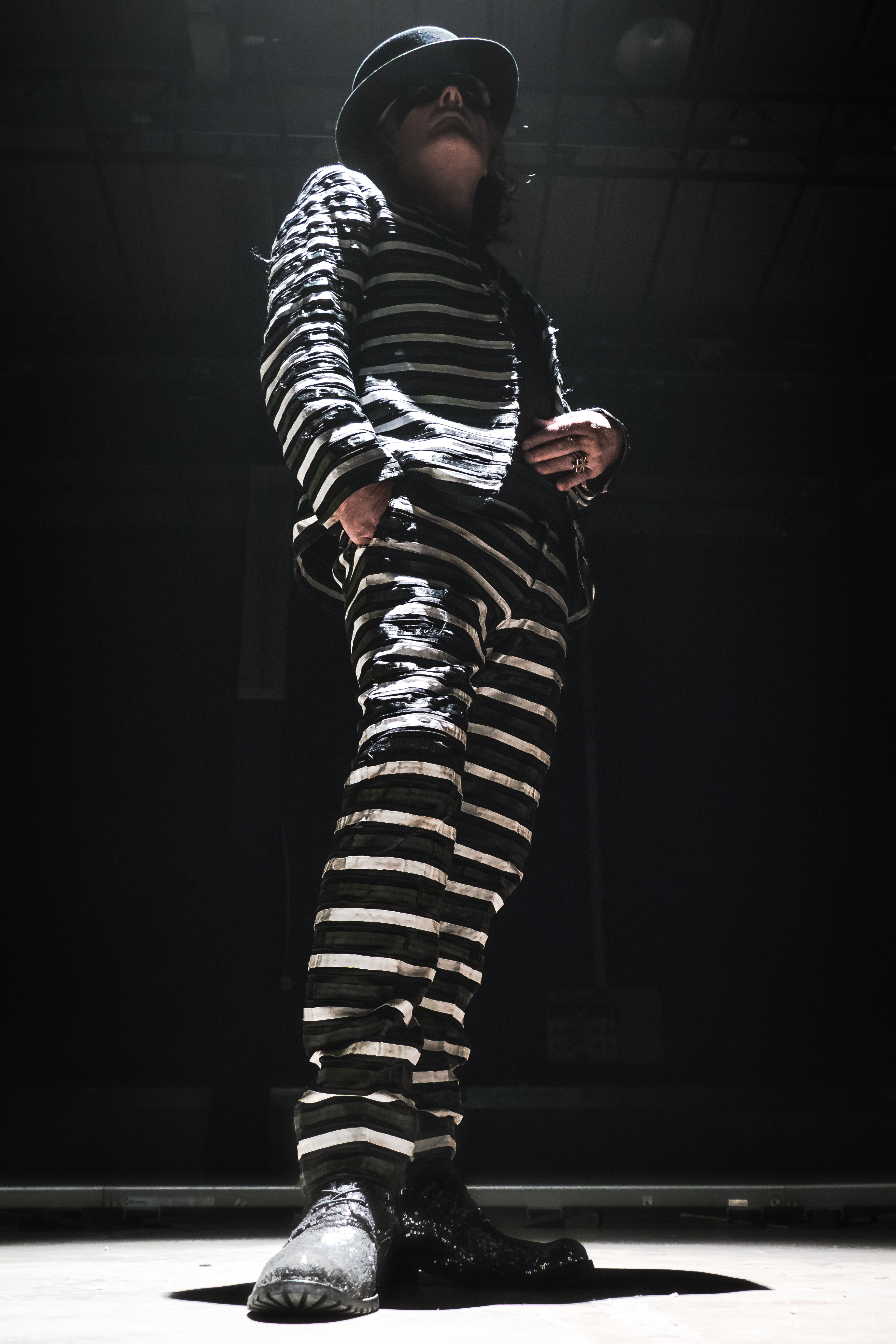 Ben Watkins on Juno Reactor's music video shooting in Moscow in autumn 2017 shot by Sanja Karin Music.